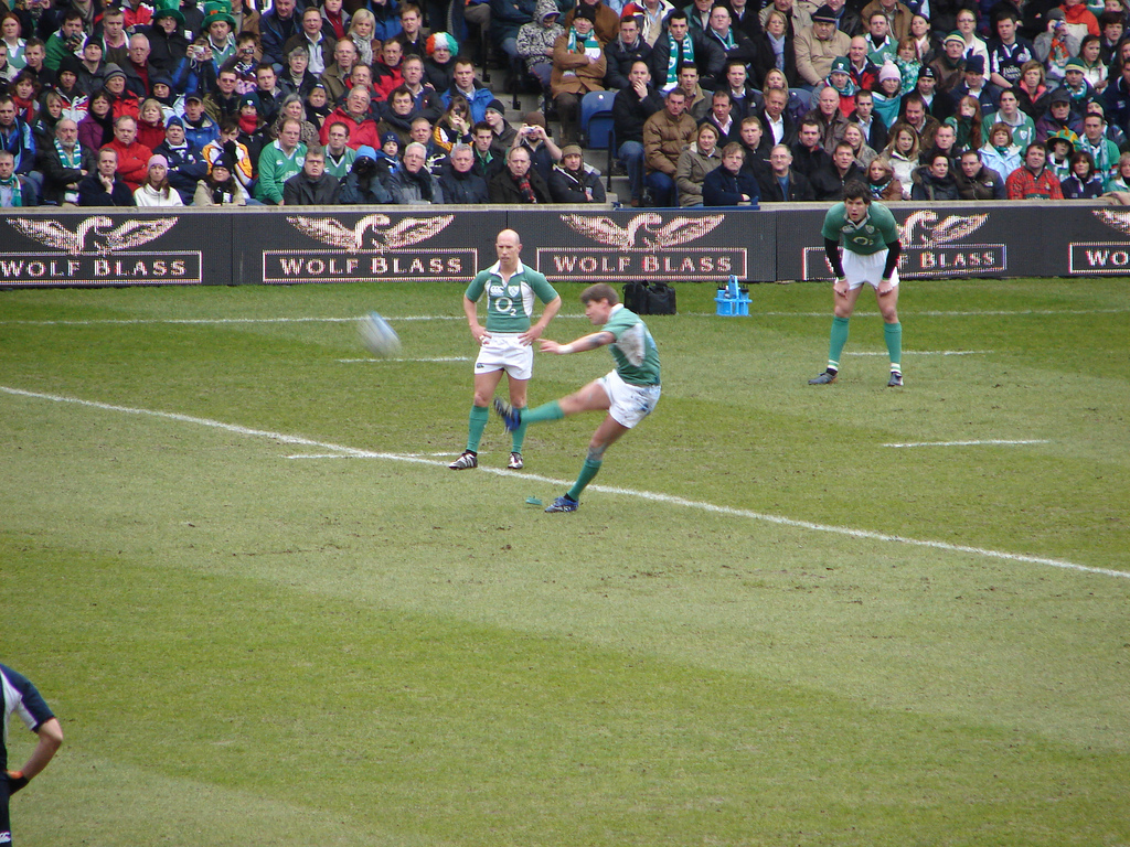 6 Nations match at Murrayfield, 10/03/07. Ronan O'Gara kicks the first points of the match, watched by Peter Stringer and Donncha O'Callaghan.